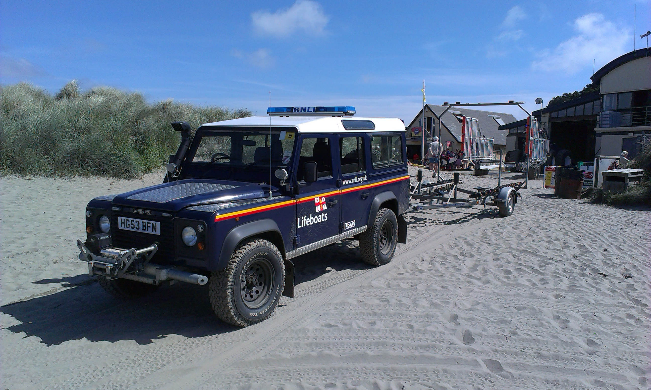 Landrover at Cardigan RNLI station, used for transporting the inflatable to the water